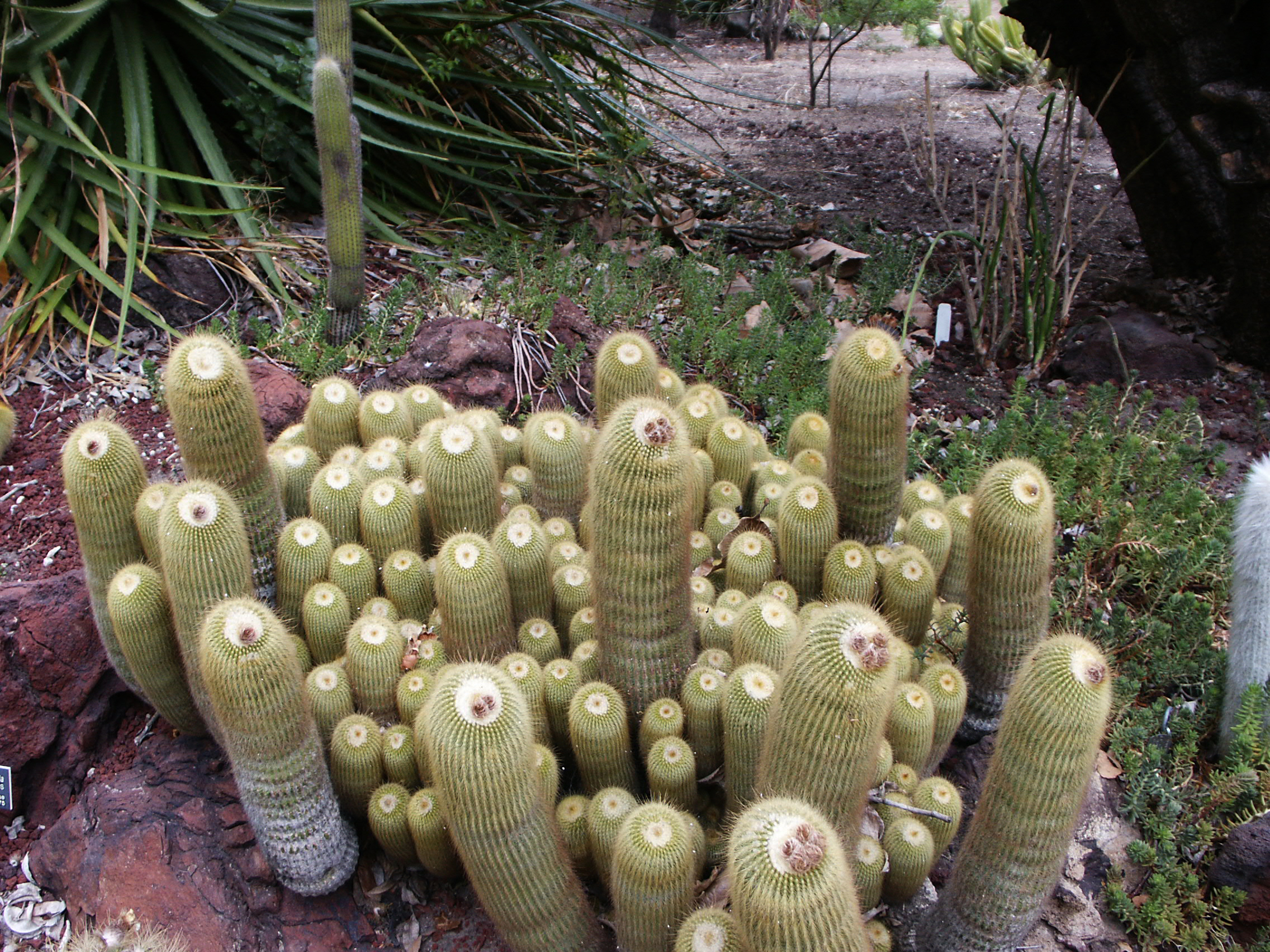 Lemon Ball cluster (Parodia leninghausii), Huntington Library Desert Garden May 2009 - quite amusing